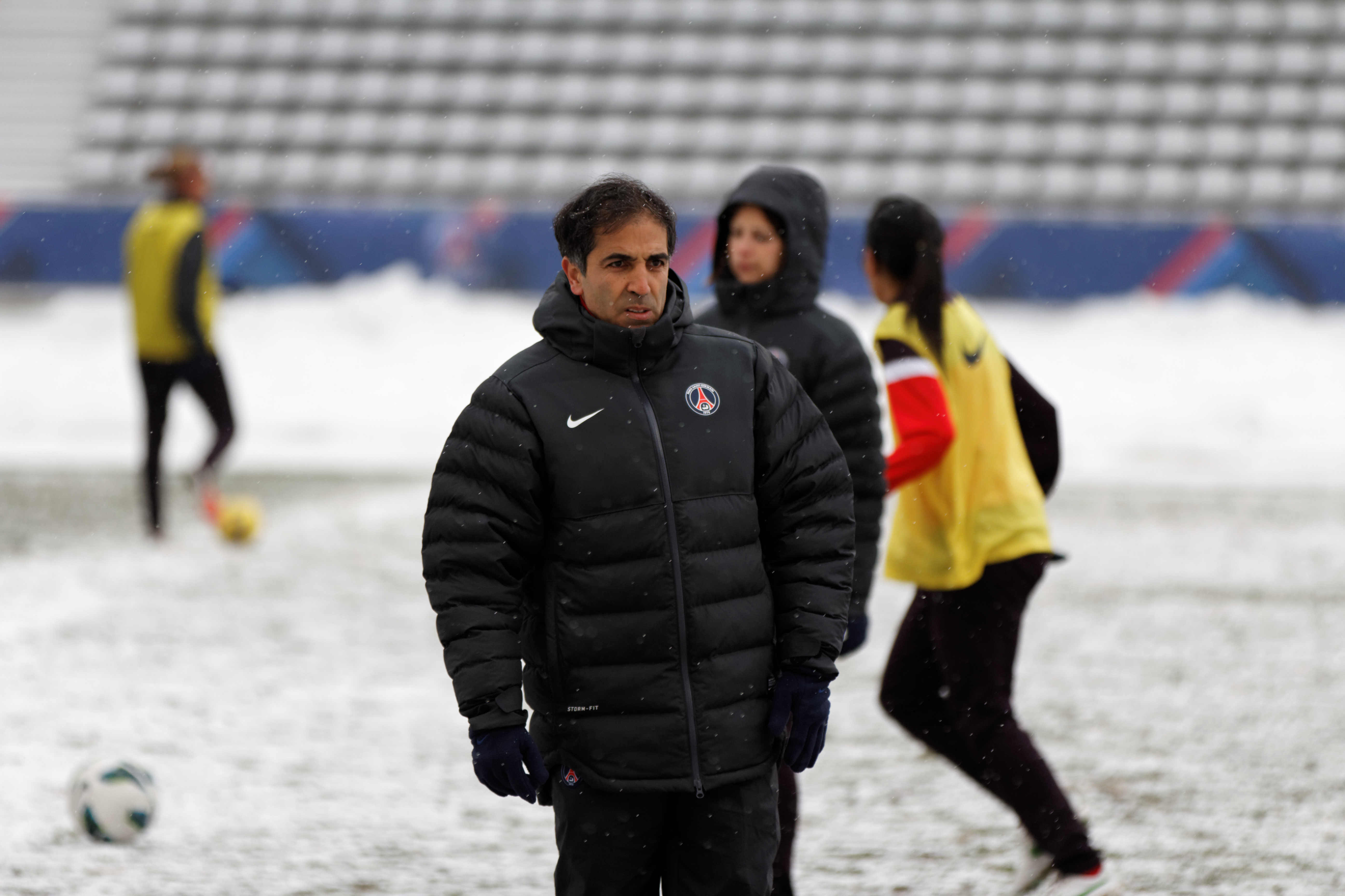 PSG-Toulouse, January 20th, 2013. Farid Benstiti (PSG).